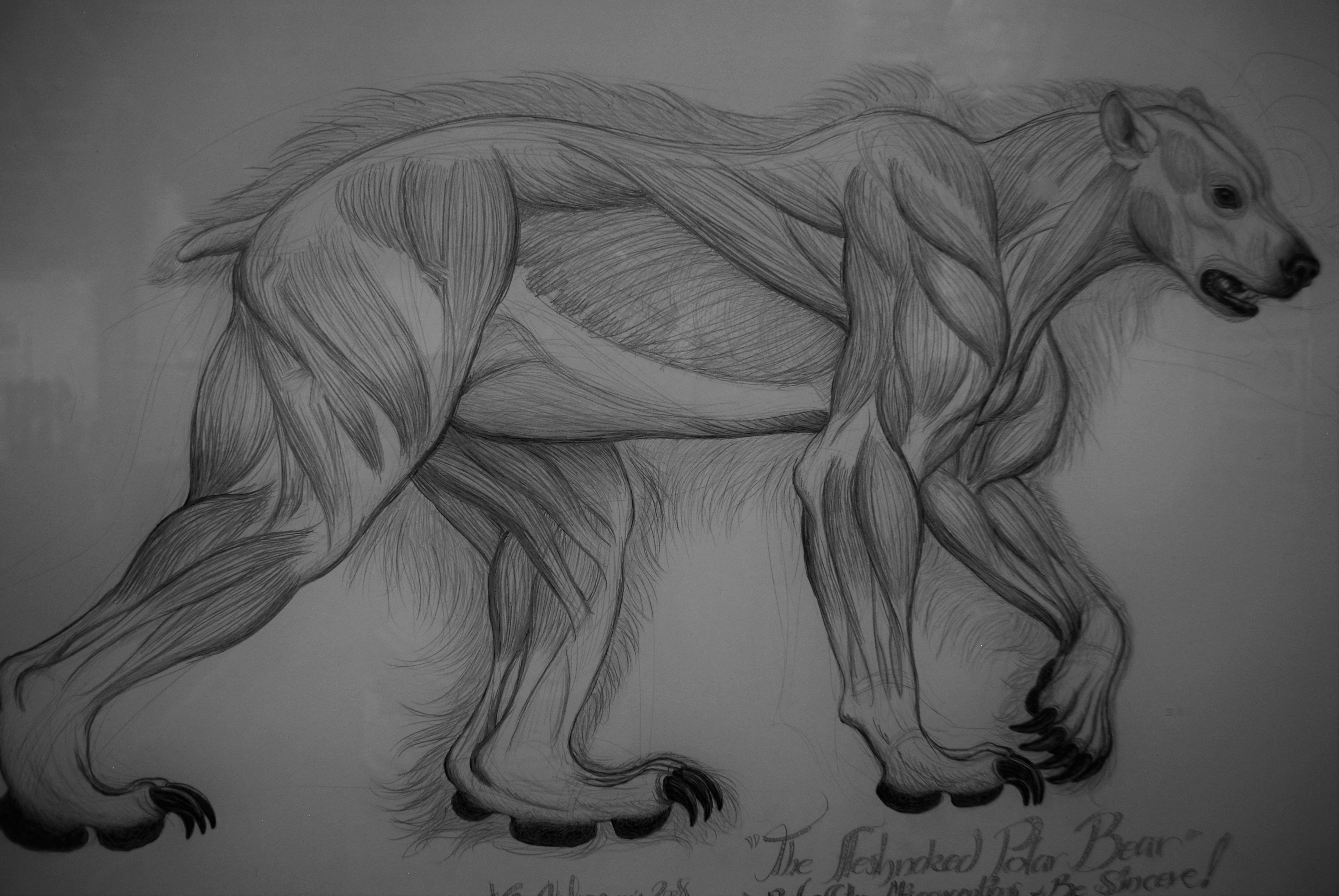 Naja Abelsen - "The fles naked Polar Bear - maj 2008 - pencil